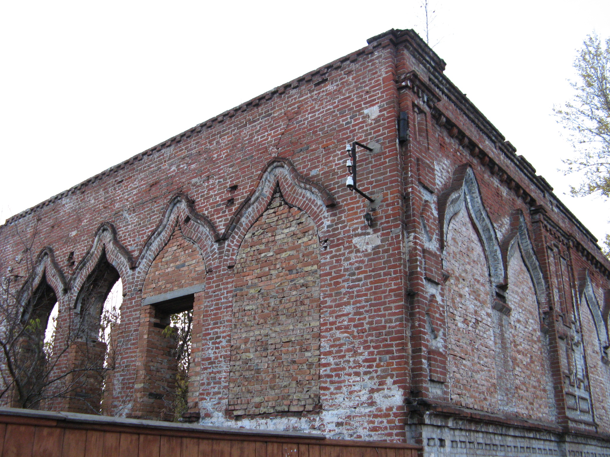 Destroyed Babrujsk synagogue